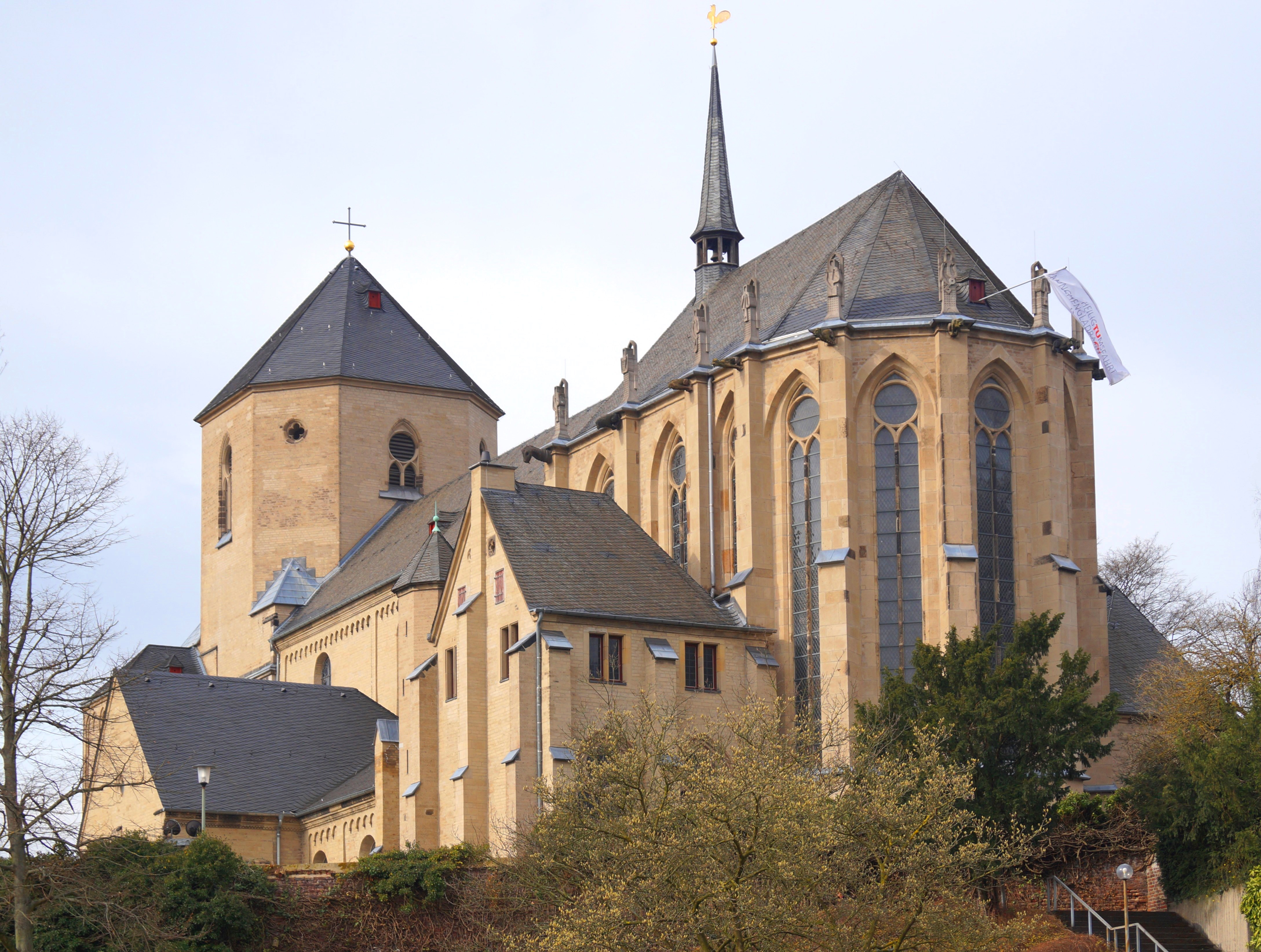 The "Mönchengladbacher Münster" photographed from the Abbey garden. The Mönchengladbach Münster was the Abbey Church of the Abbey of Gladbach until 1802. The construction was started in the year 974. The Church was elevated to the 1000-year anniversary of the Abbey was founded in the year 1974 of the Pope to a Basilica minor. The Cathedral was built in the Romanesque style with Gothic choir is a significant building and monument in the Rhineland.